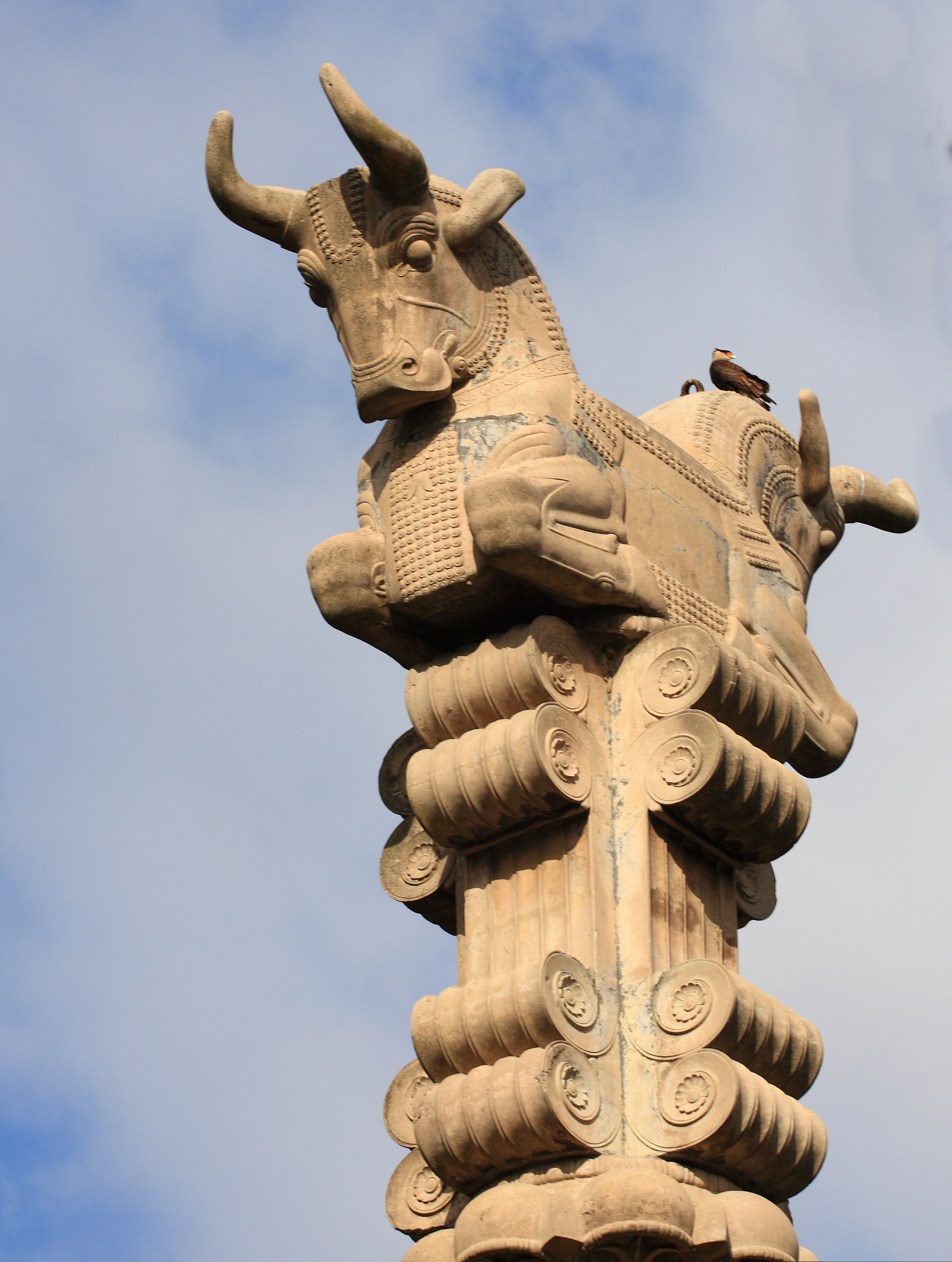 Persian Column, Perspolis, iran